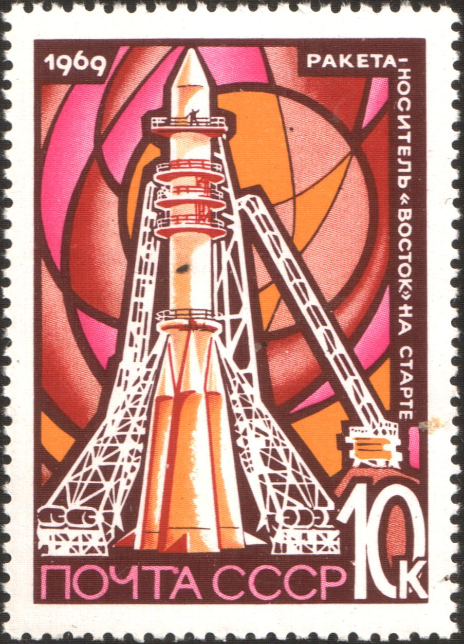 USSR stampː Vostok on Launching Pad. Seriesː National Cosmonautics Day